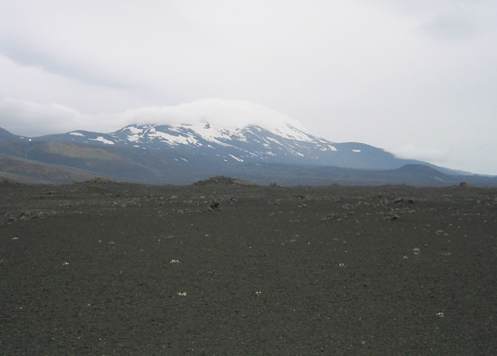 Hekla, Iceland, with ash and lava rocks in the foreground.